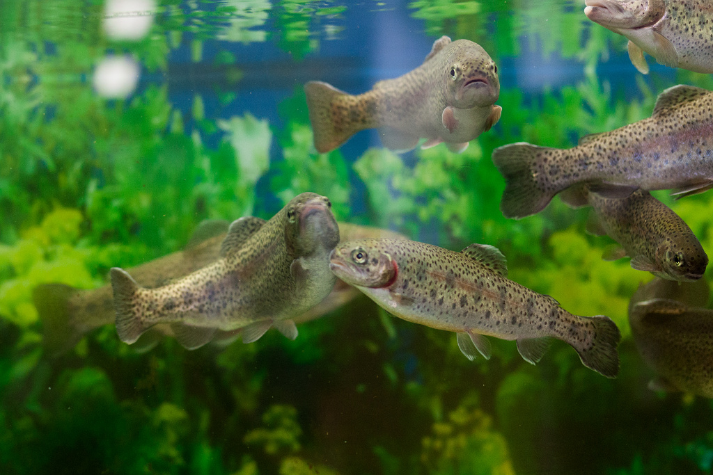 Úpravna vody v Podhradí u Vítkova - biologický monitoring kvality vody